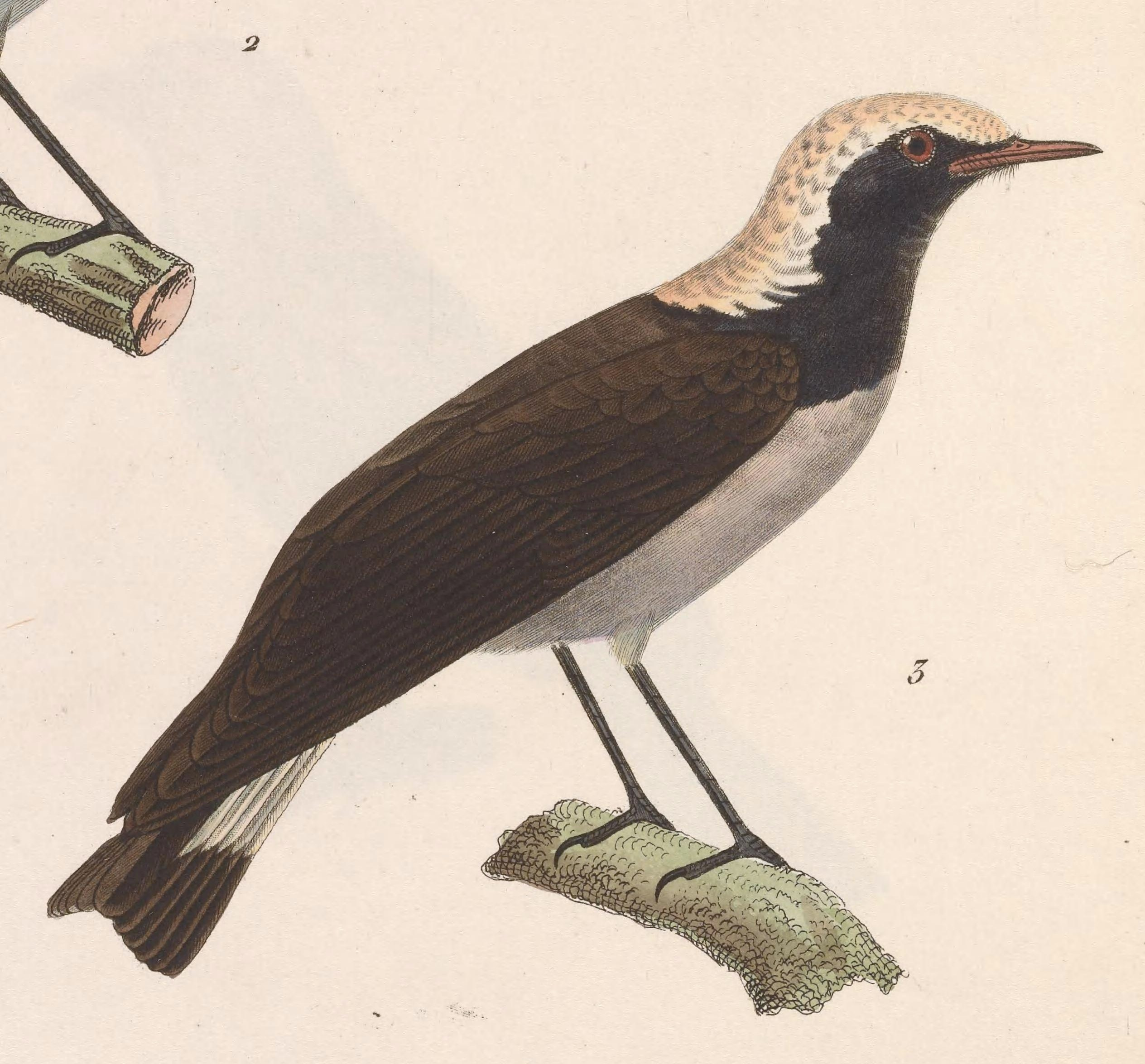 « Saxicola leucomela » = Oenanthe pleschanka (Pied Wheatear) - male